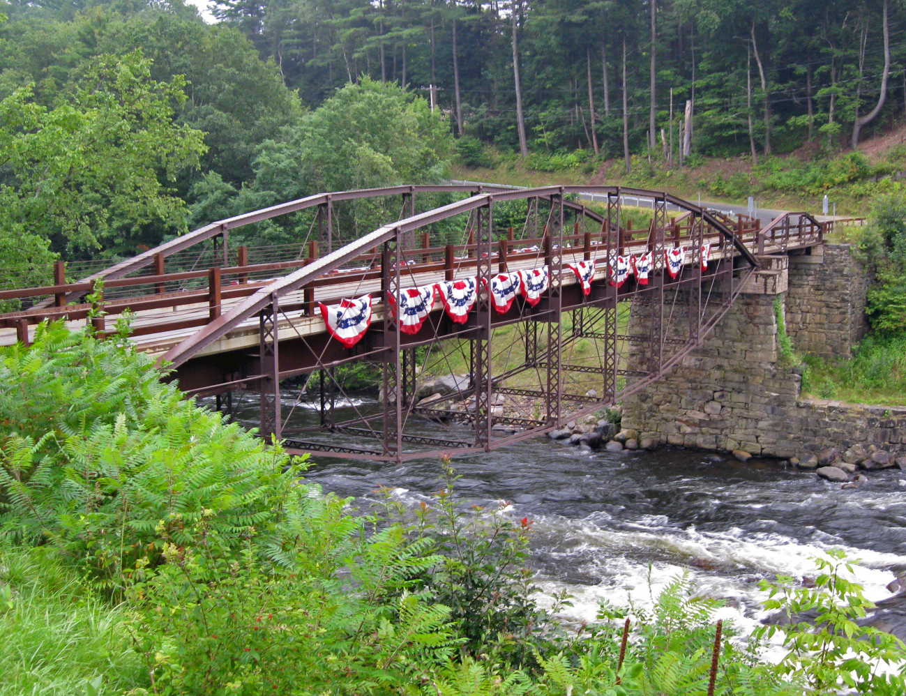 Hadley Bow Bridge over Sacandaga River, Hadley, NY, USA